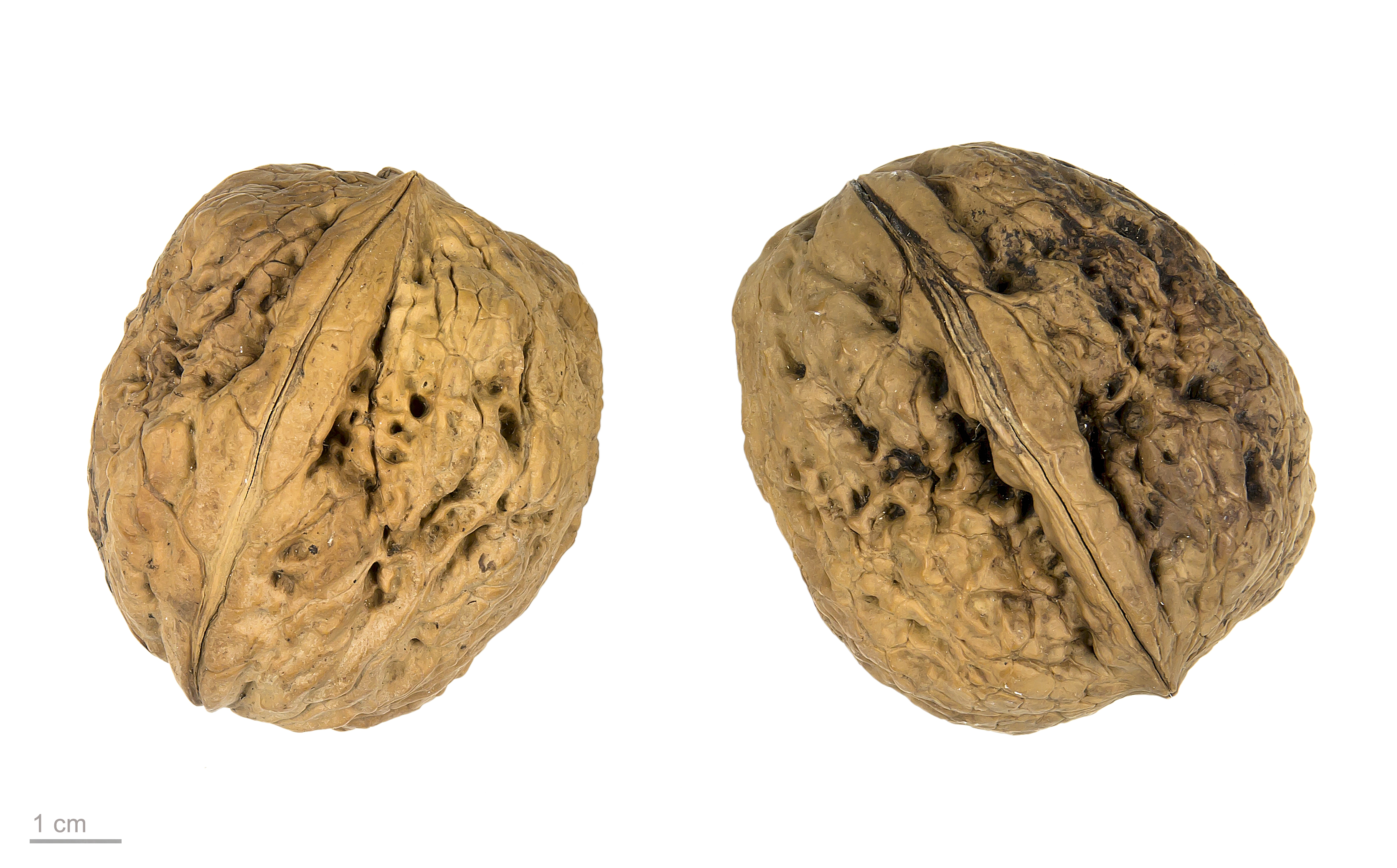 Juglans regia, common walnut, fruits